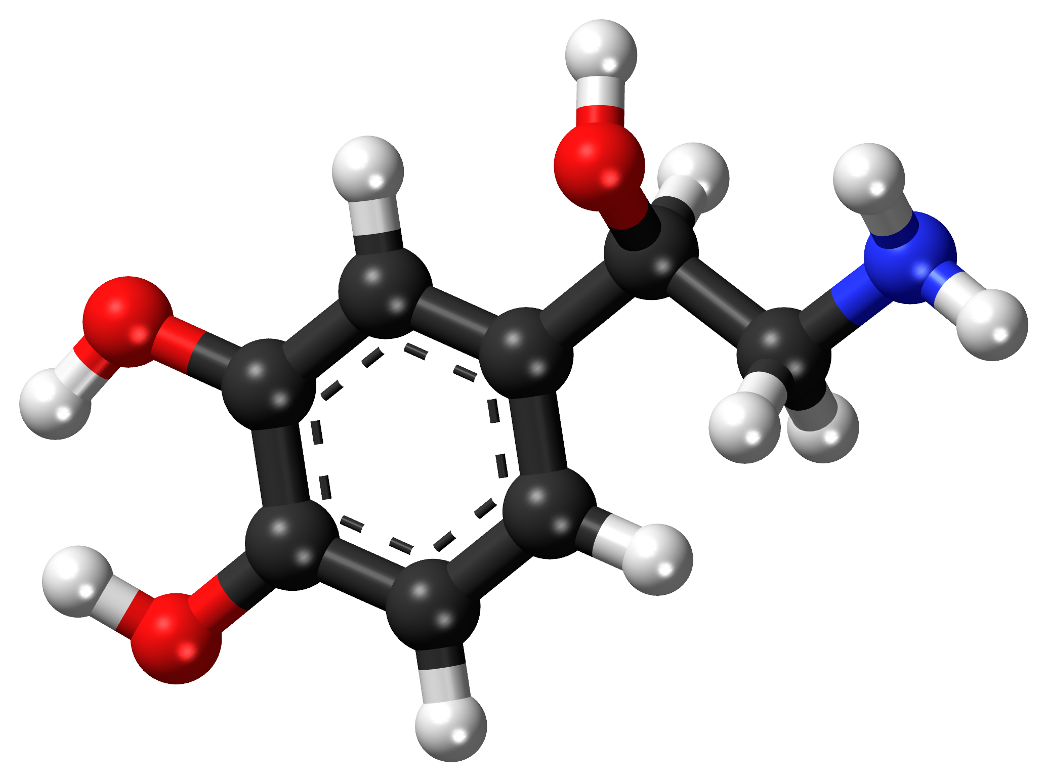 Ball-and-stick model of norepinephrine (also known as noradrenaline or noradrenalin) — a hormone and a neurotransmitter. Created using Accelrys DS Visualizer 4.1 and Adobe Photoshop CC 2015. Colors used: Carbon, C: black Hydrogen, H: white Nitrogen, N: blue Oxygen, O: red This chemical image was created with Discovery Studio Visualizer.